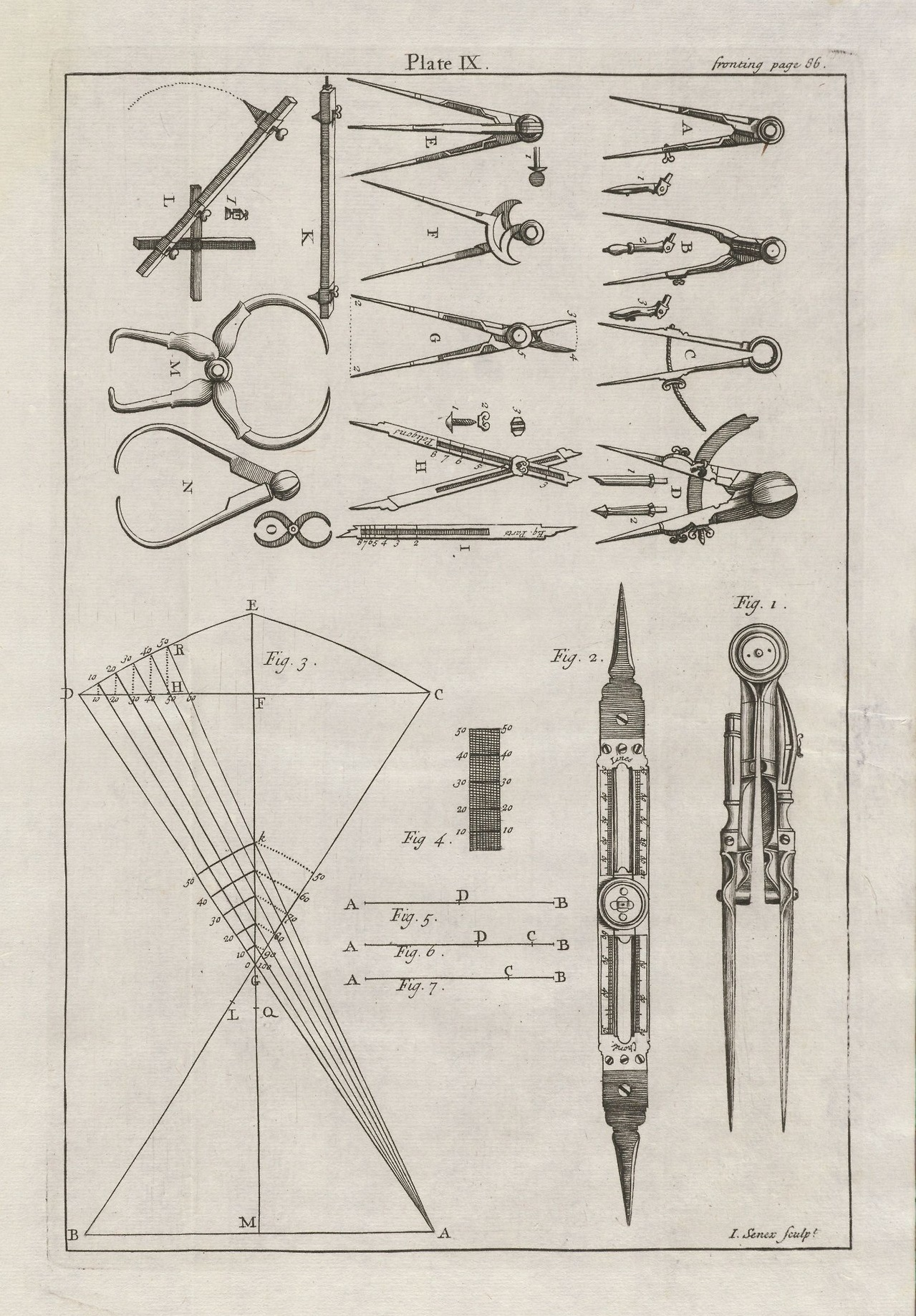 Plate IX from The Construction and Principal Uses of Mathematical Instruments (1723) by Nicolas Bion, 1652-1733. FC7 B5222 Eg723s, Houghton Library, Harvard University